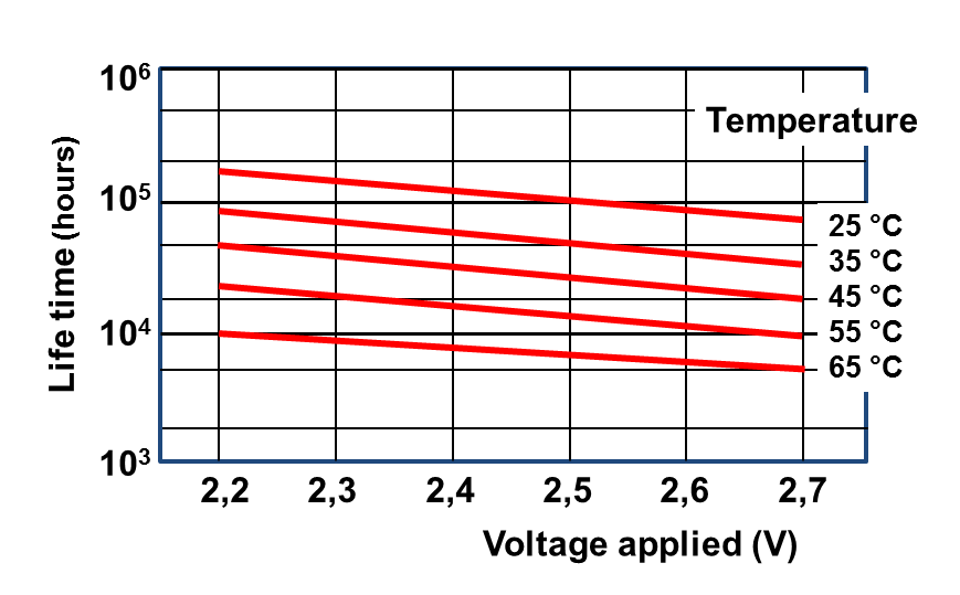 life time calculation of supercapacitors